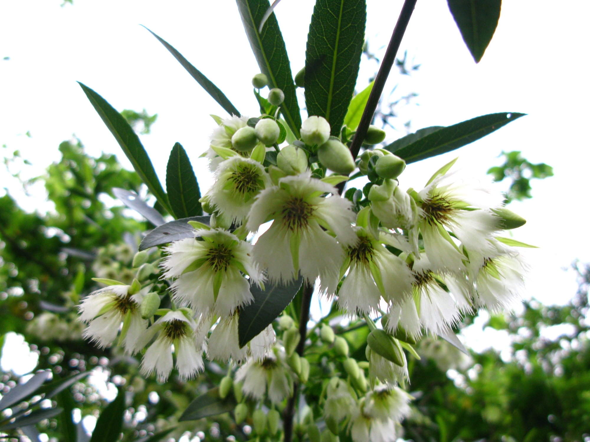 the inside view of flowers of Elaeocarpus hainanensis